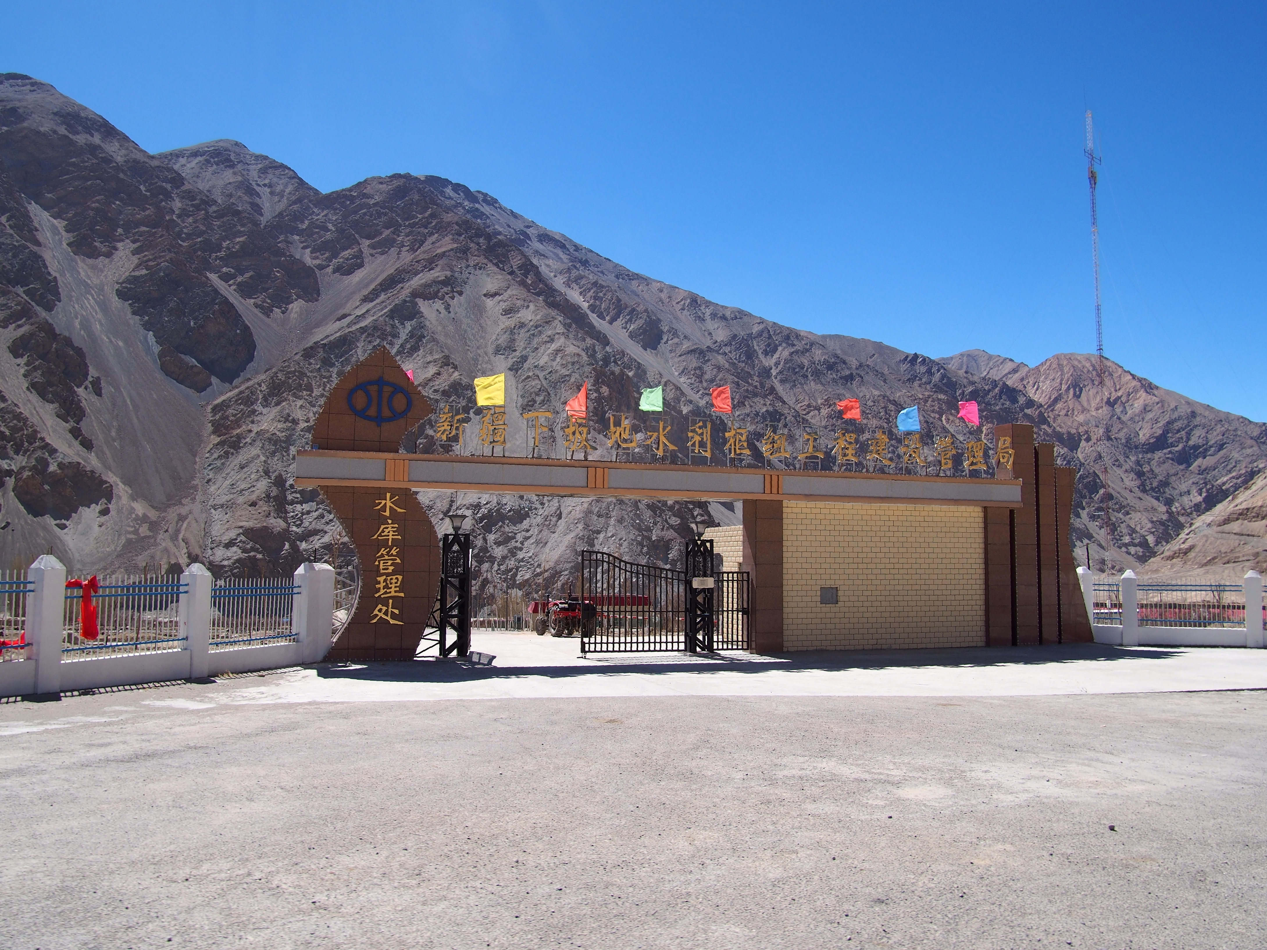 下坂地水利枢纽管理局 - Administration of Xiabandi Dam - 2015.04